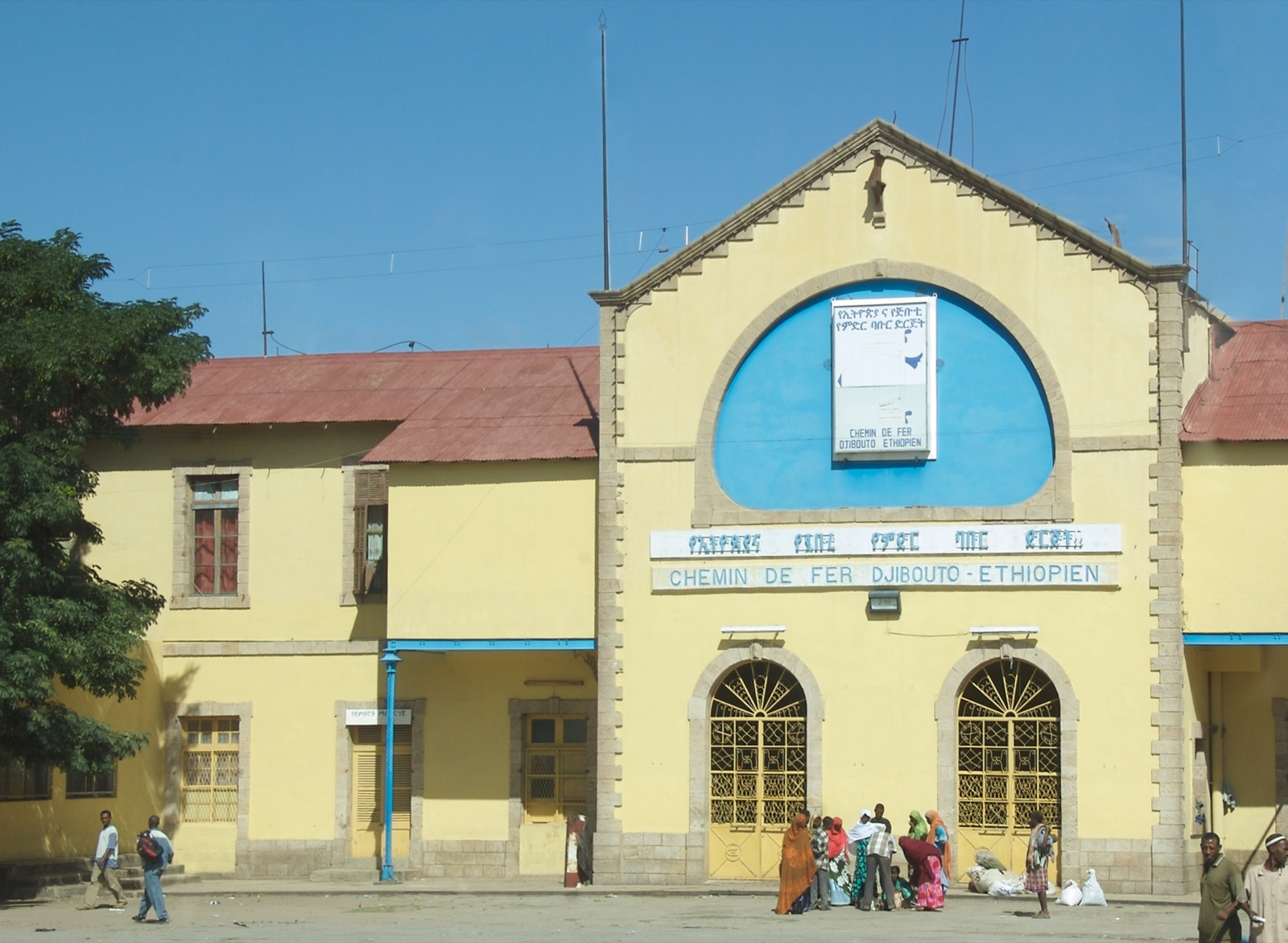 According to Wikipedia: In 1894, the Compagnie Impériale des Chemins de Fer Éthiopiens was formed to build and operate a railroad across eastern Ethiopia from Addis Ababa to the port of Djibouti in what was at the time French Somaliland. When the company failed in 1906, the line from the coast in Djibouti ended at a place in the desert country of eastern Ethiopia where the town of Dire Dawa sprang up. In 1908, the assets of the company were transferred to a new firm, the Compagnie de Chemin de Fer Franco-Ethiopien de Jibuti à Addis Abeba, which received a new concession to finish the line to Addis Ababa. After a year of wrangling with the previous financiers and their governments, construction began anew. By 1915 the line reached Akaki, only 23 kilometers from the capital, and two years later came all the way to Addis Ababa itself. / / / / / / I understand there is no longer passenger service between Addis and Dire Dawa. I received the impression that today tourists are strongly discouraged from traveling by train from Dire Dawa to Djibouti for security reasons. For more information about the railroad, go to